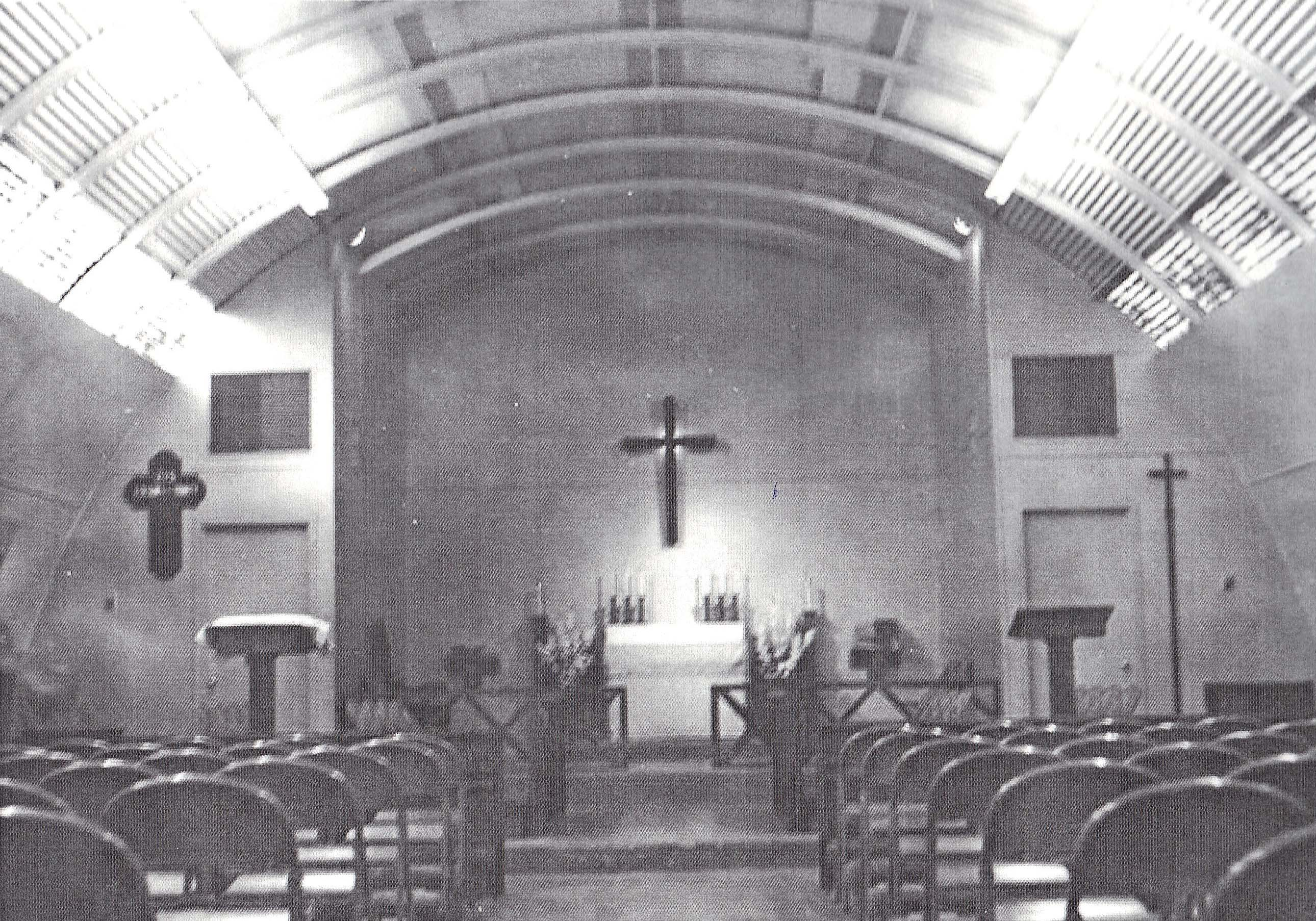 Interior of the Quonset Hut used by Saint Barnabas on the Desert prior to the permanent building's construction